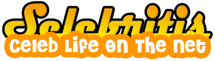 This is logo for Infotainment site's